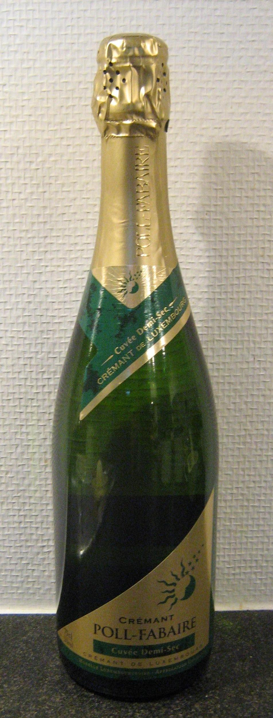 Bottle of Crémant Poll-Fabaire, a sparkling wine from the Grand Duchy of Luxembourg.